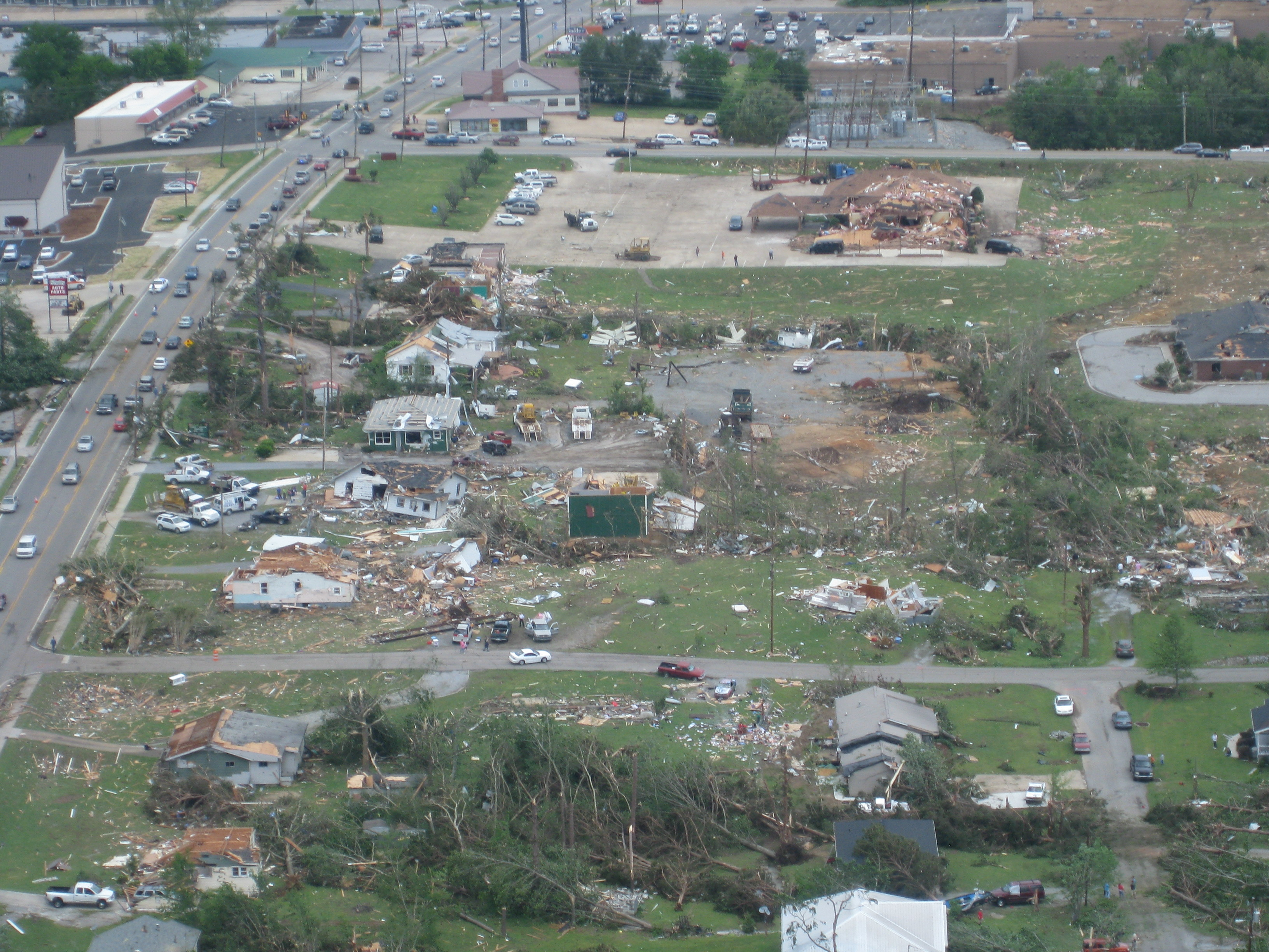 Aerial view of tornado damage in Trenton, Georgia